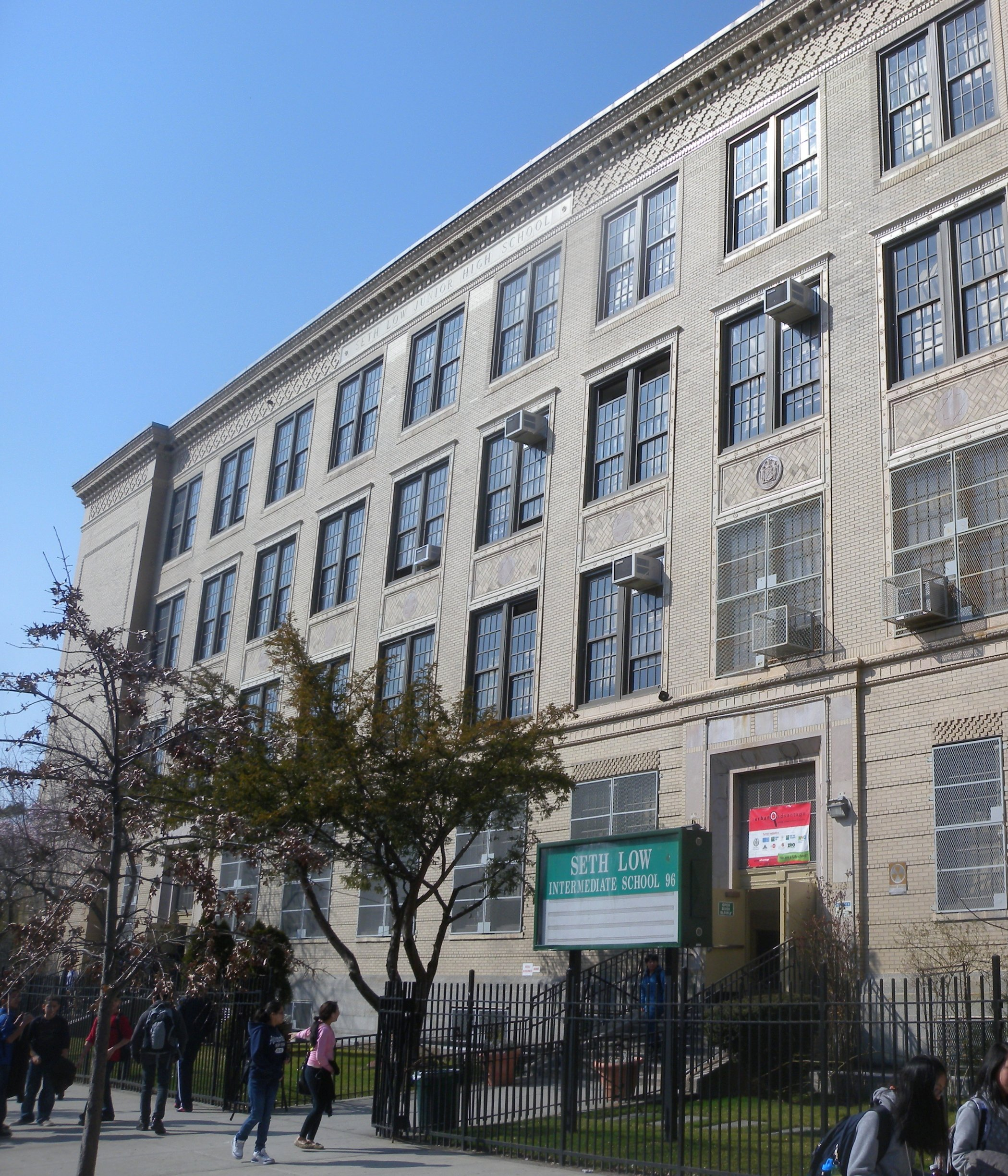 Looking west from West 11th Street at Seth Low JHS on a sunny midday.